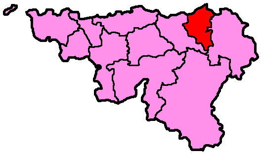 Location of the constituency of Liege in Wallonia